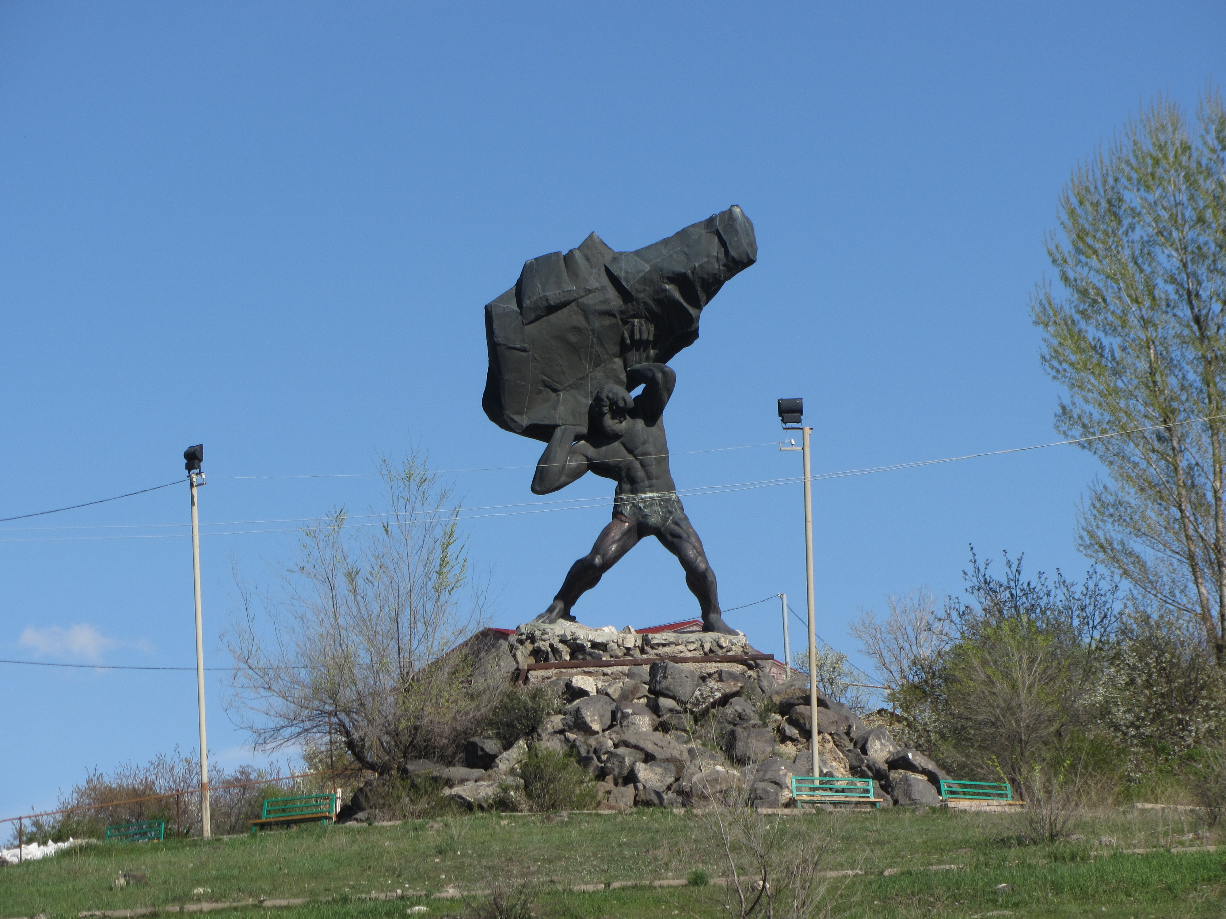 Monument "Tork Angegh"